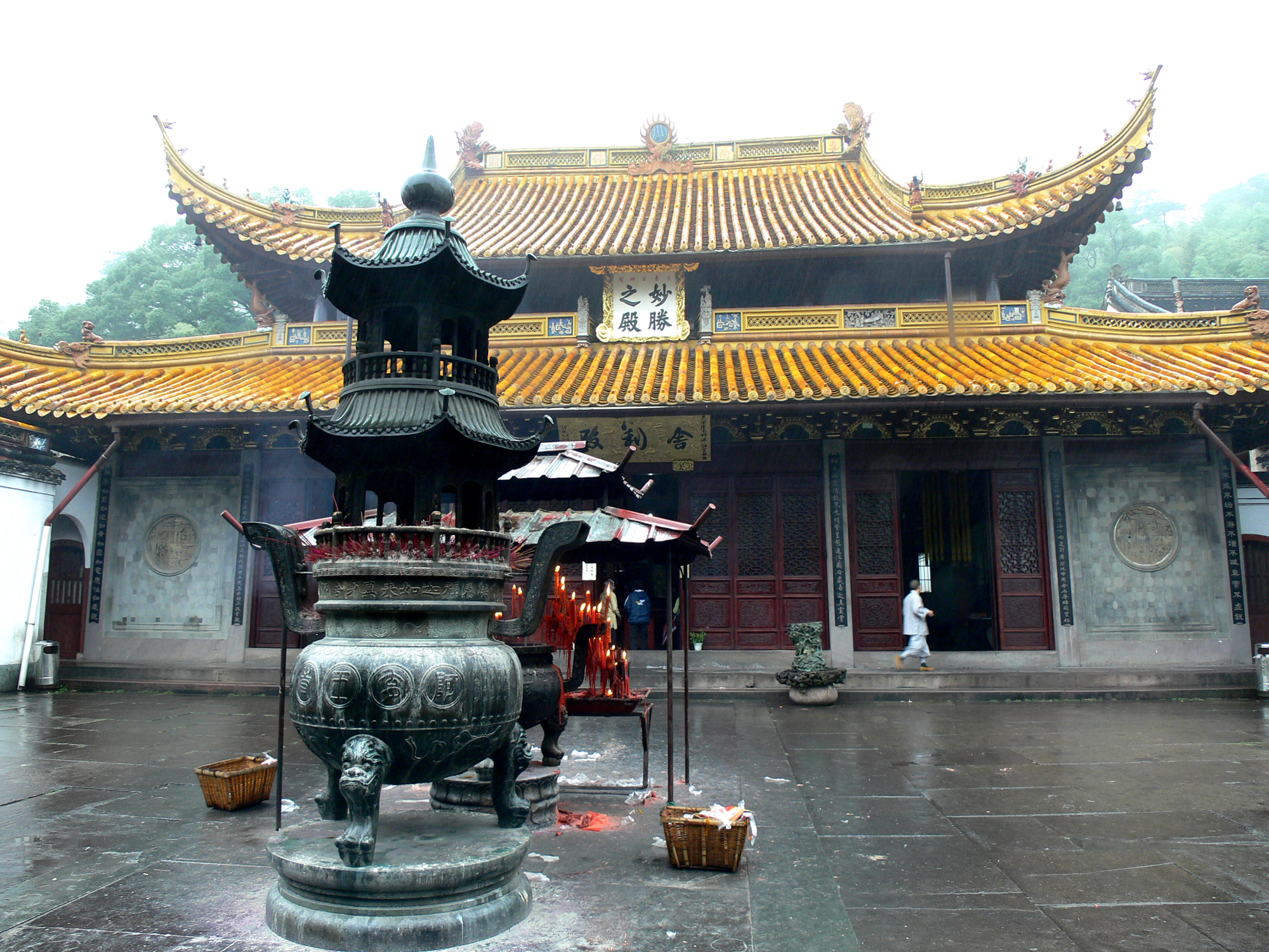 Sarira Hall of Ningbo Ashoka Temple